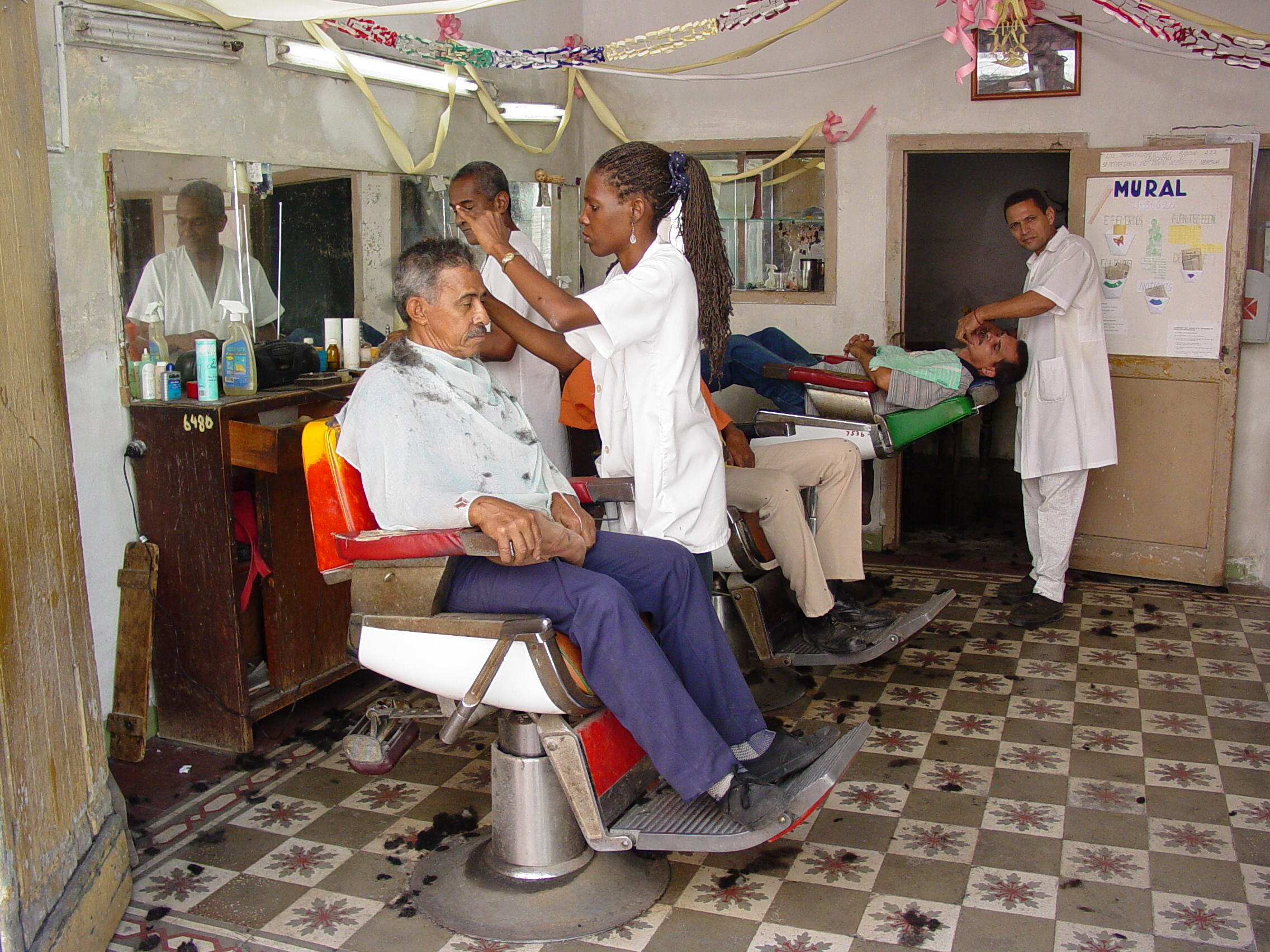 Barbershop in Santiago de Cuba, Cuba. January 2003.